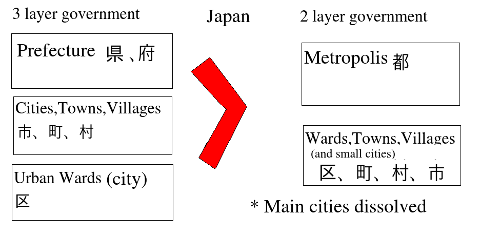 Shows the concept of removing a layer of government, specifically in Japan but the concept may be applied to any country. (and is used in China and Taiwan)